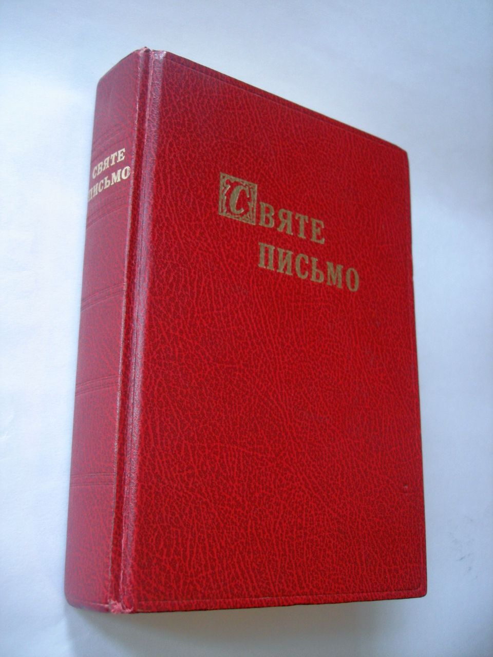 book cover - Holy Letter on ukrainian language